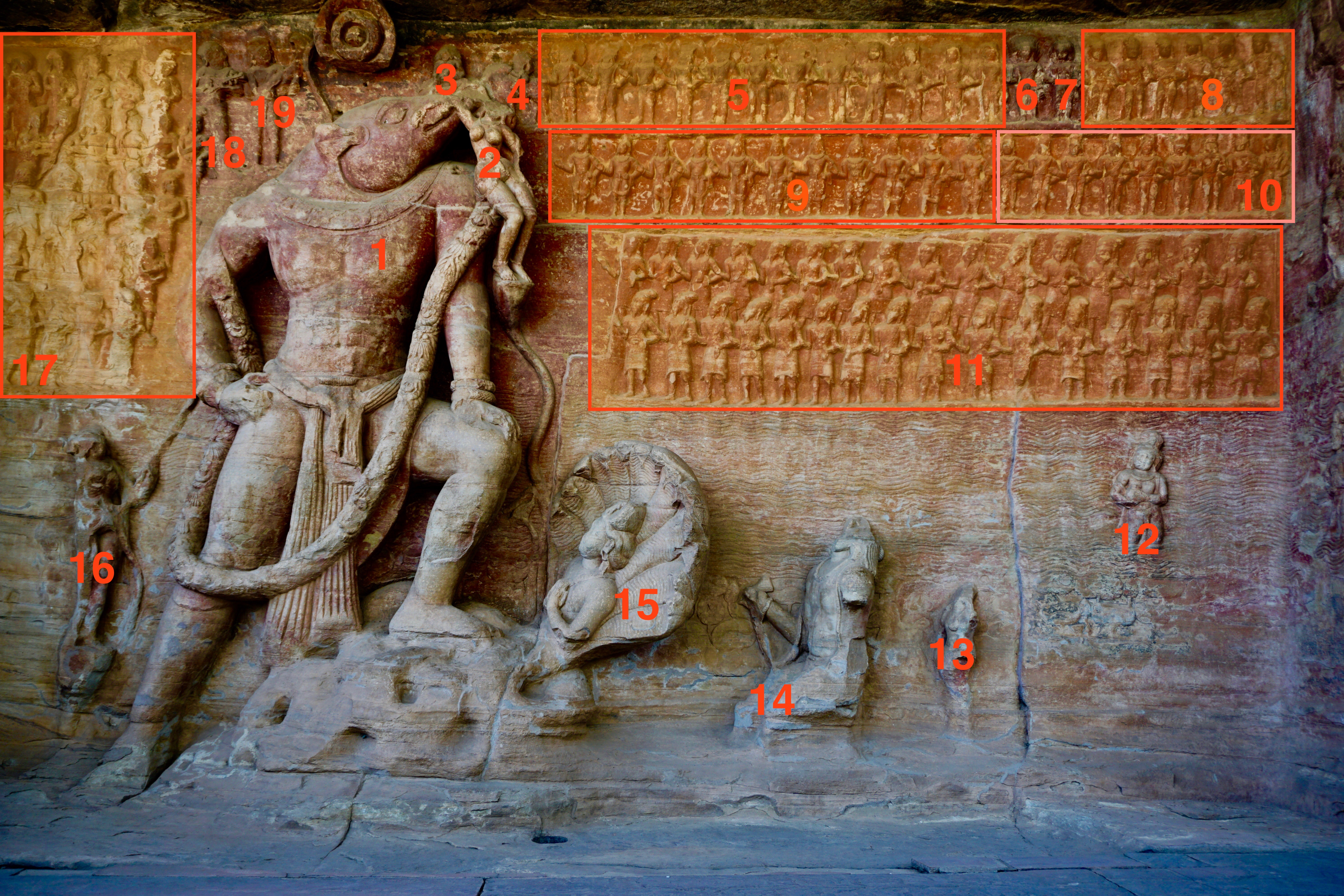 The Varaha panel at the Hindu Udayagiri Caves is one of the most studied examples from the Gupta Empire era. It narrates the Hindu mythology about a man-boar avatar of Vishnu (Varaha) rescuing goddess earth (Bhudevi, Prithivi) from the depths of cosmic ocean. The panel embeds many characters from the ancient legend. These appear to the all around Varaha and the delicately hanging goddess. The characters are marked above as follows: 1: Vishnu as Varaha 2: Goddess earth as Prithivi 3: Brahma (sitting on lotus) 4: Shiva (sitting on Nandi) 5: Adityas (all have solar halos) 6: Agni (hair on fire) 7: Vayu (hair airy, puffed up) 8: Ashtavasus (with 6&7, see Vishnu Purana) 9: Ekadasa or eleven Rudras (ithyphalic, third eye visible in some cases) 10: Ganadevatas 11: Rishis (Vedic sages of Hindu texts, each wearing barks of trees, a beard, carrying water pot and rosary beads for meditation) 12: Samudra 13: Gupta Empire minister Virasena 14: Gupta Empire king Chandragupta II 15: Nagadeva 16: Lakshmi 17: More Hindu sages (incomplete photo; these include the Vedic Saptarishis) 18: Sage Narada playing guitar 19: Sage Tumburu playing Vina This is a derivative work on the following wikimedia commons file: 005 Varaha Relief (32851921924).jpg